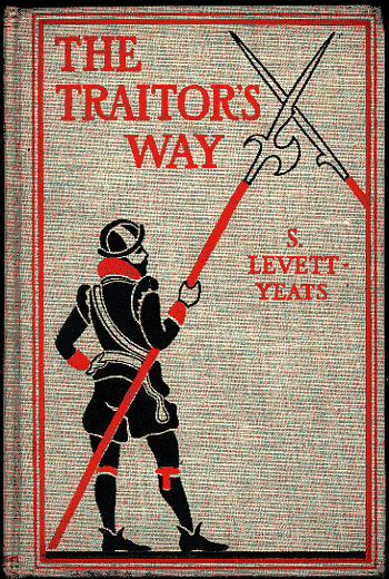 Cover of the novel "TheTraitor's Way," by Sidney Kilner Levett-Yeats, published by Stokes, New York, 1901